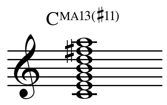 Thirteenth chord CMA13(sharp11). Created by Hyacinth (talk) 05:19, 3 July 2011 using Sibelius 5.